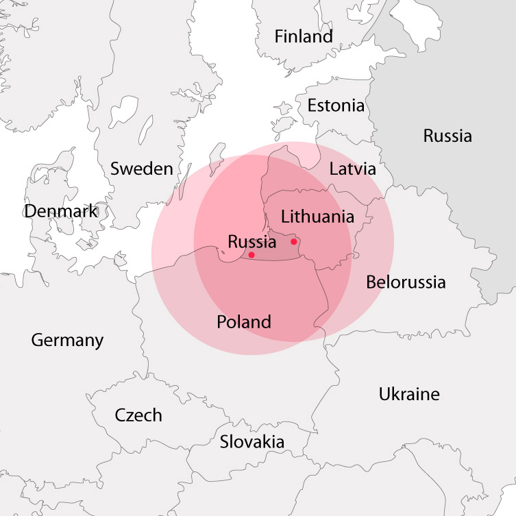 Iskander missile range when deployed in Kaliningrad.